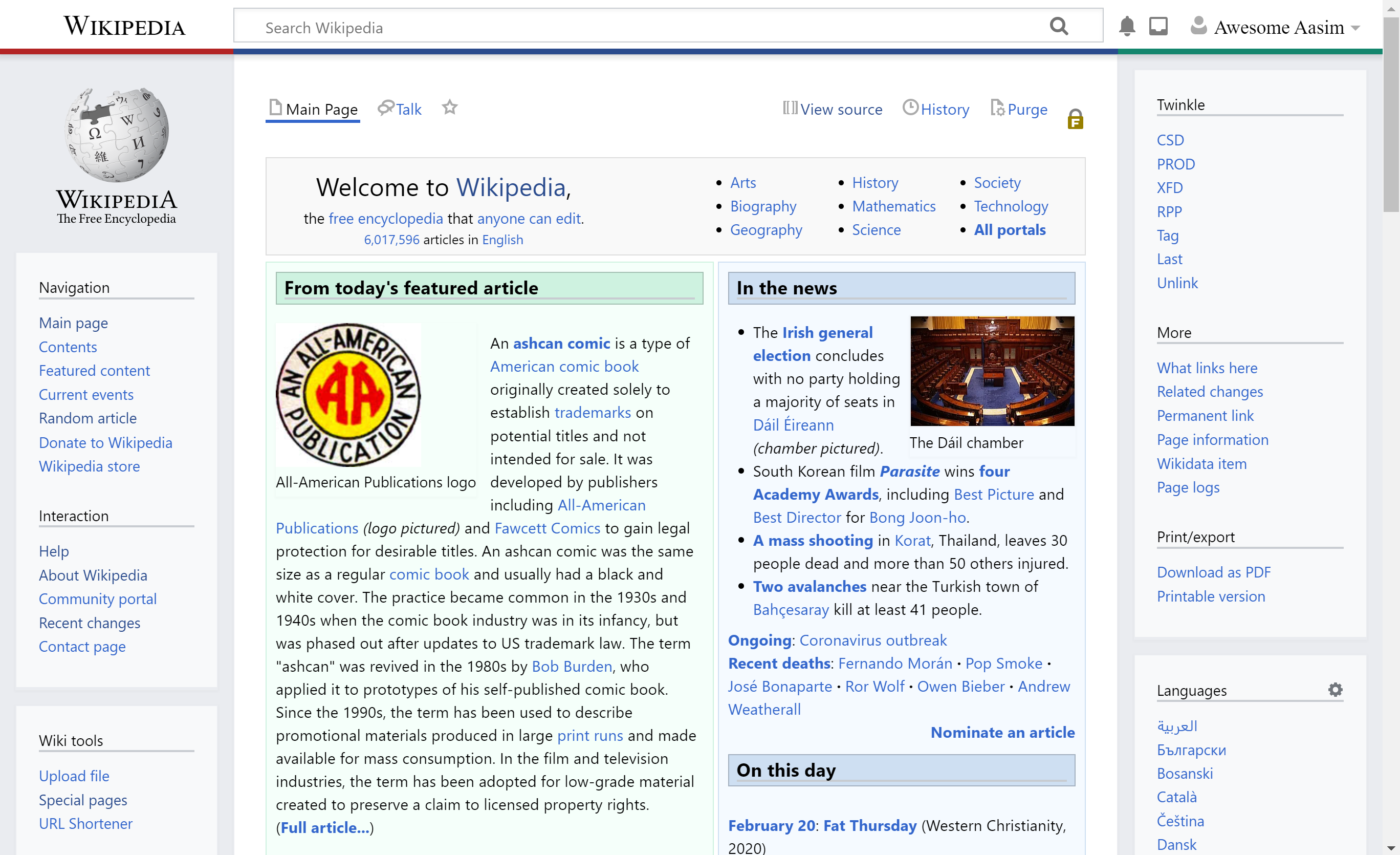 A screenshot of Wikipedia's main page as seen with the Timeless skin. The skin renders differently depending on the device.